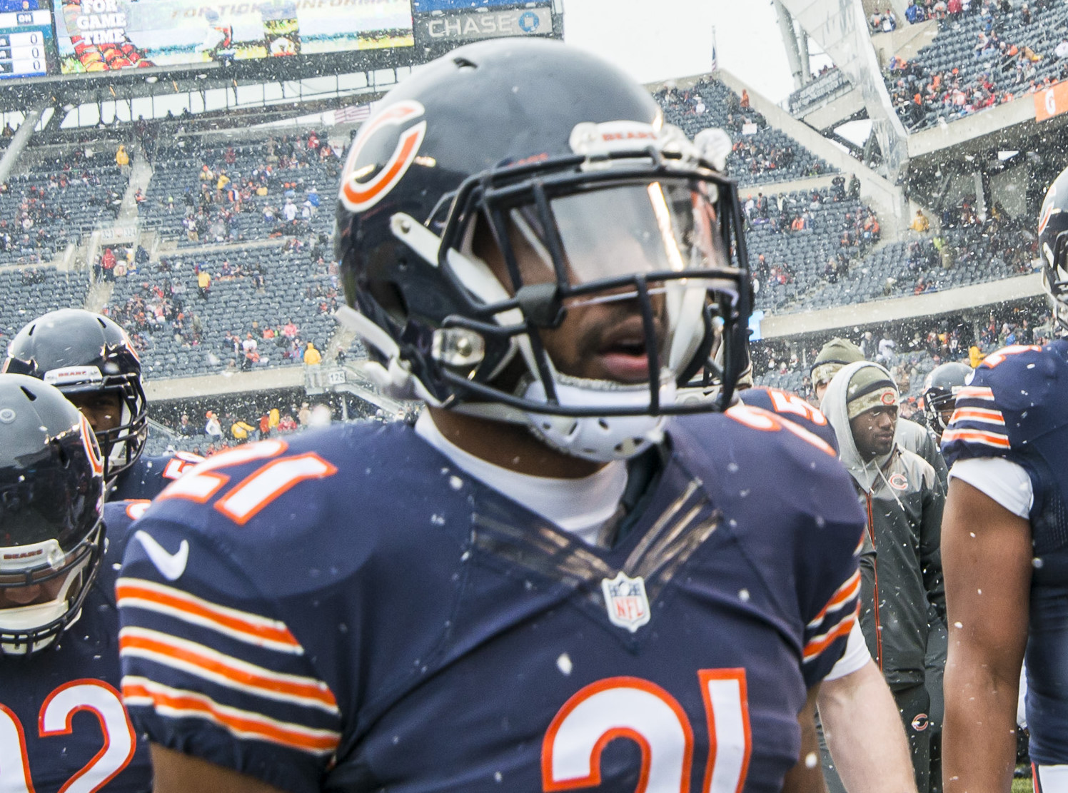 Chicago Bears safety, Ryan Mundy, in a game against the Minnesota Vikings on November 16, 2014.